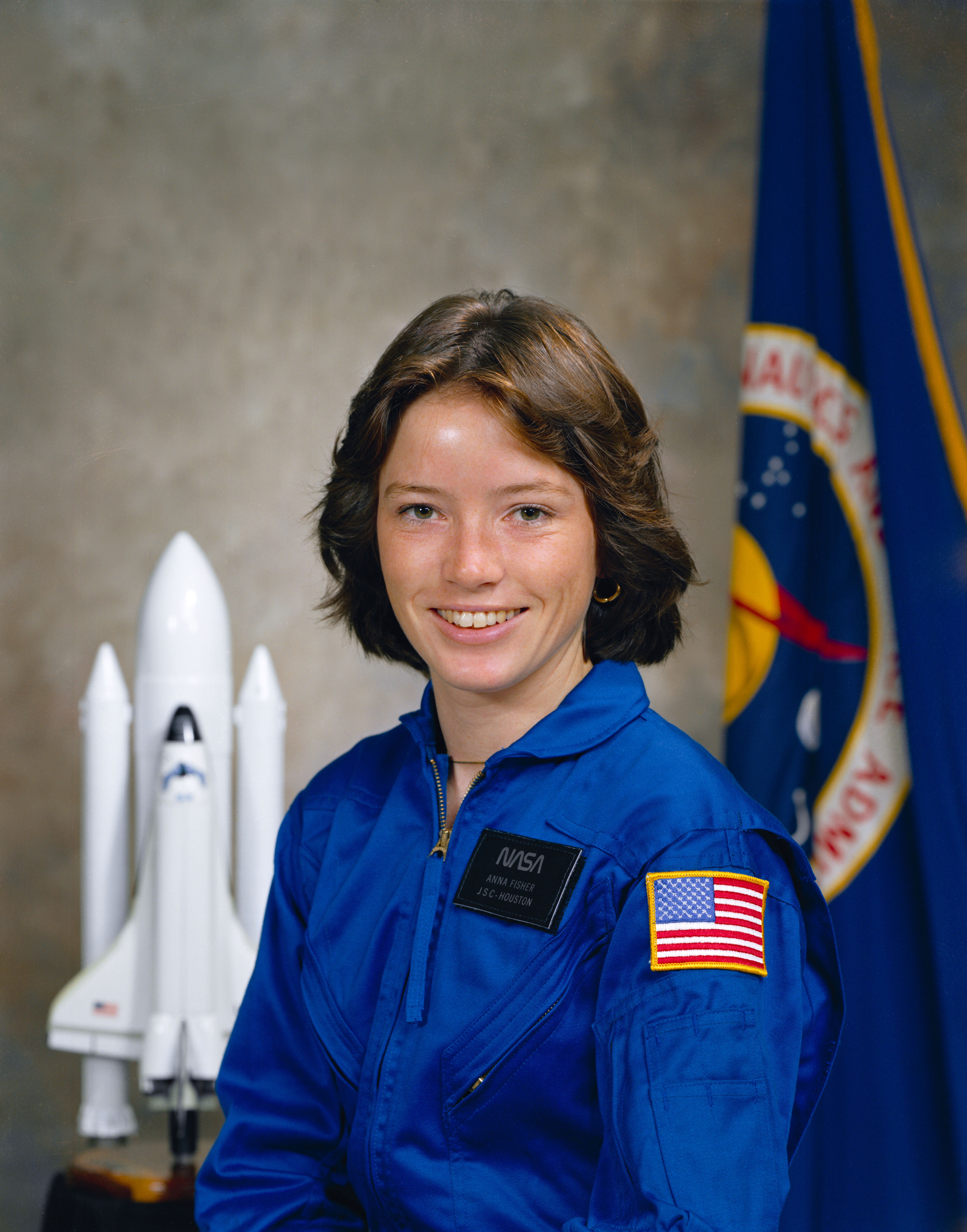 Portrait of Astronaut candidate Anna L. Fisher in blue flight suit. Image ID: S78-35303 or C-1979-1511